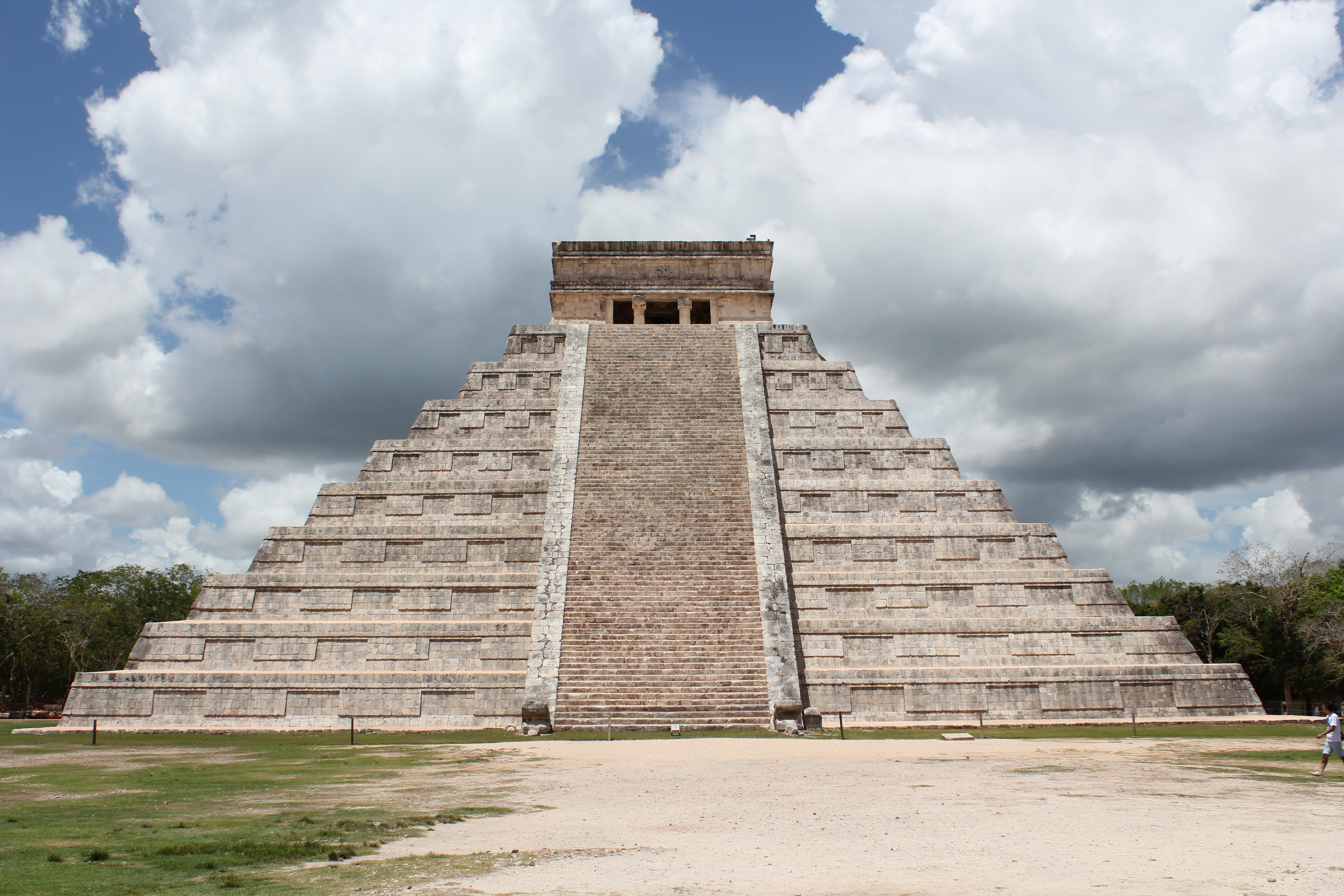 Chichén Itzá, El Castillo, north side (source: and